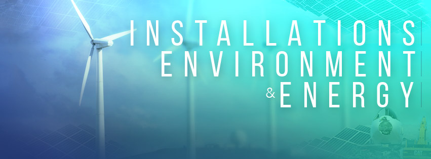 SAF-IE Logo